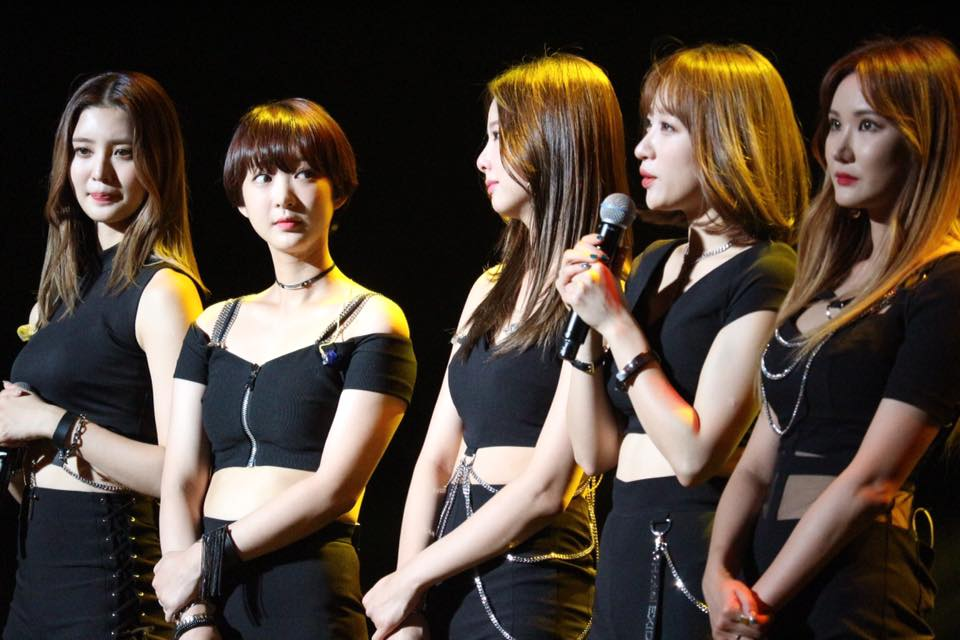 Leggo World in Taiwan.